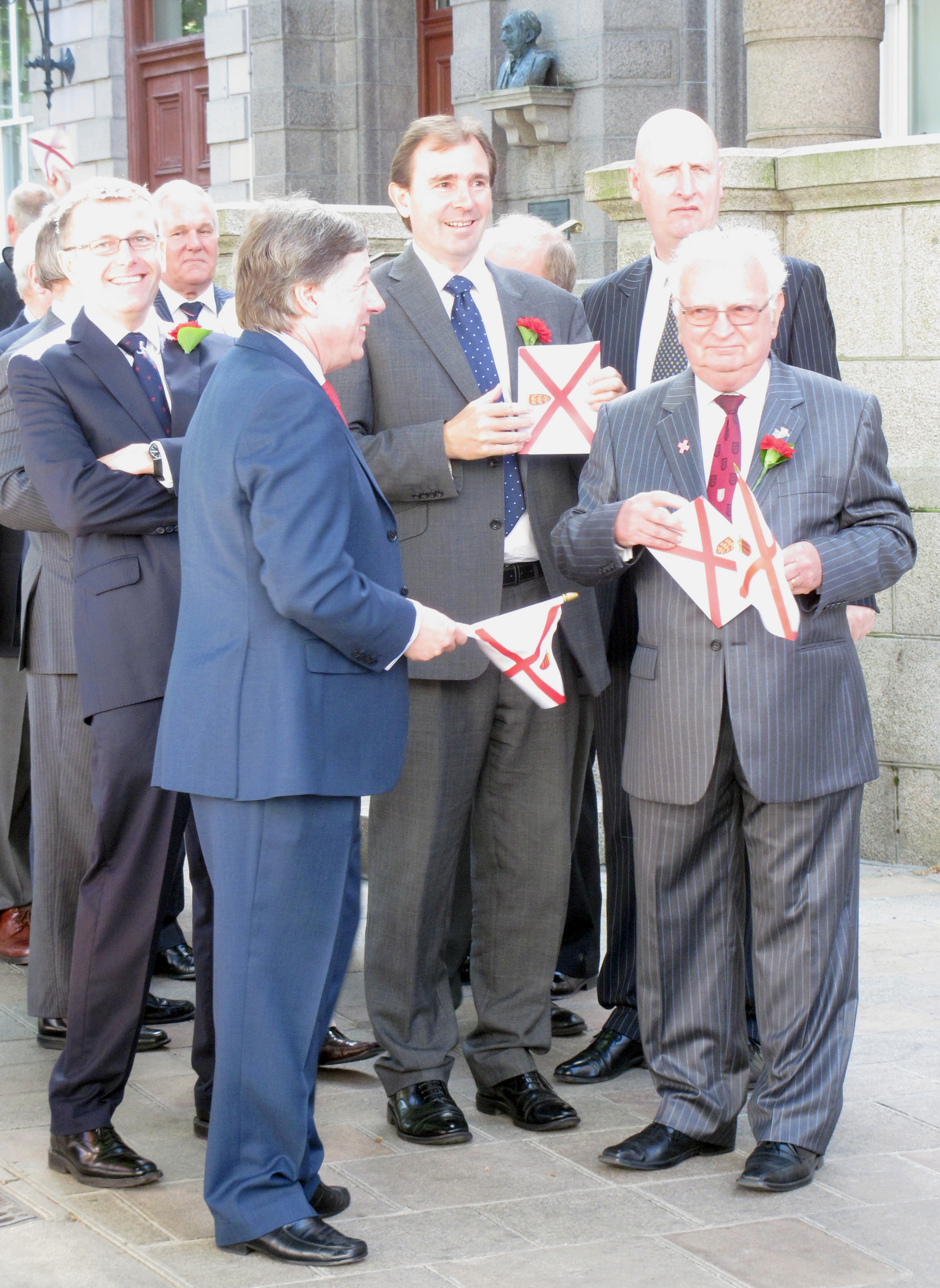 Liberation Day celebrations in Jersey 2011